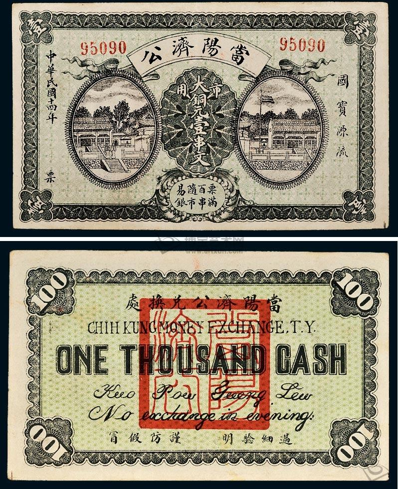 A banknote worth "1 (one) String of cash (coins)".